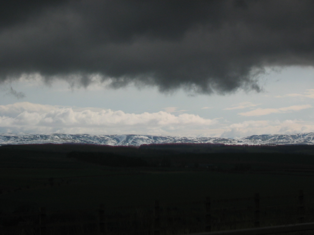 Lammermuir Hills in winter; Scottish Borders